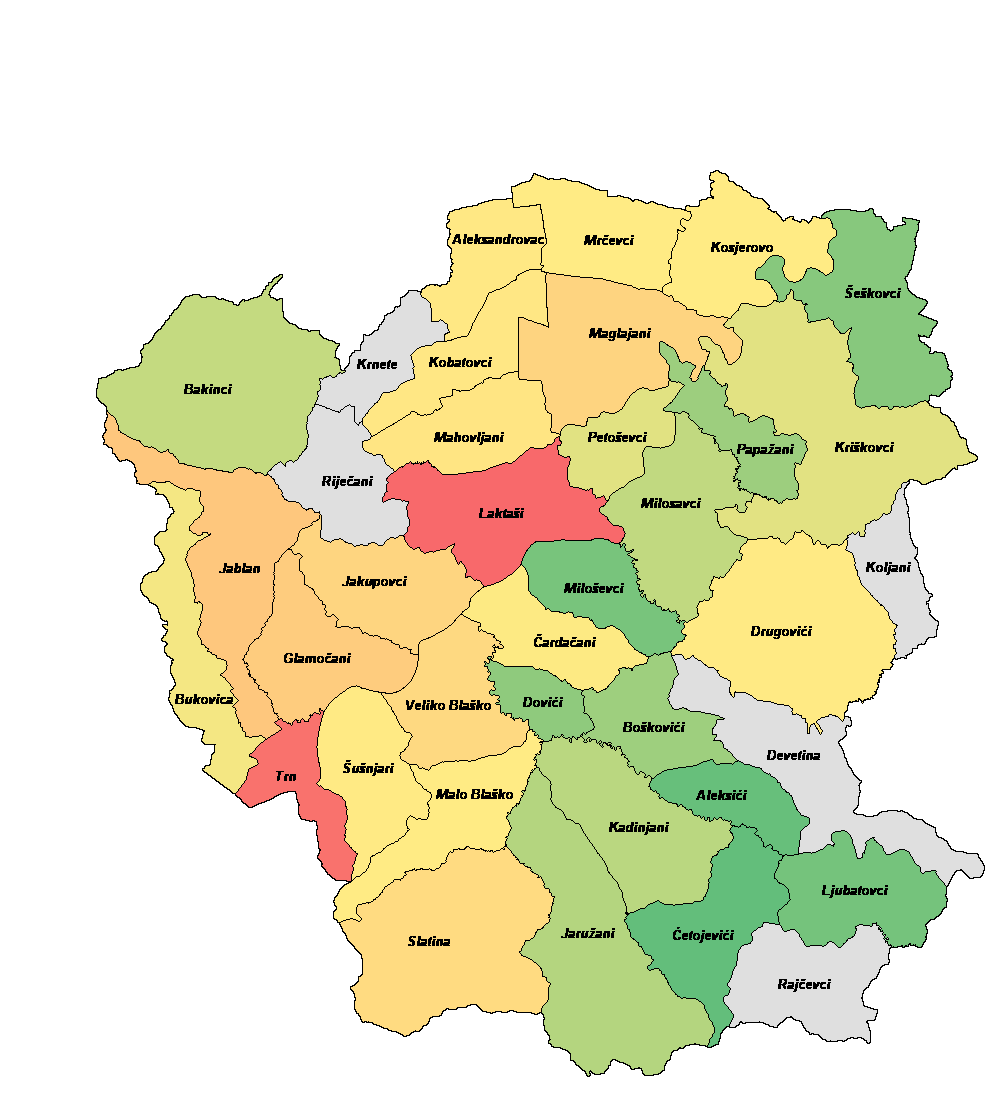 Laktaši